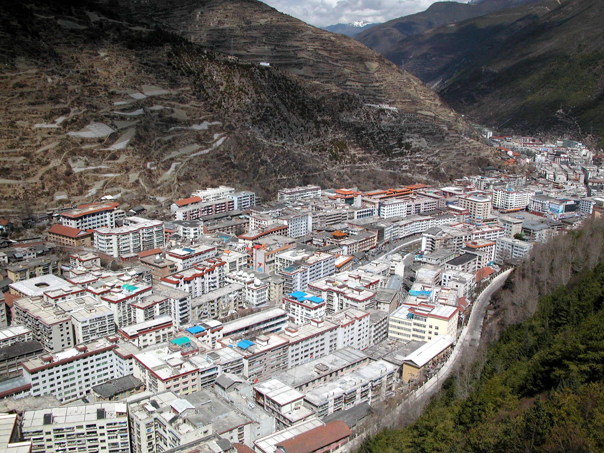 Town of Kangding, following contours of riverRiver of Development